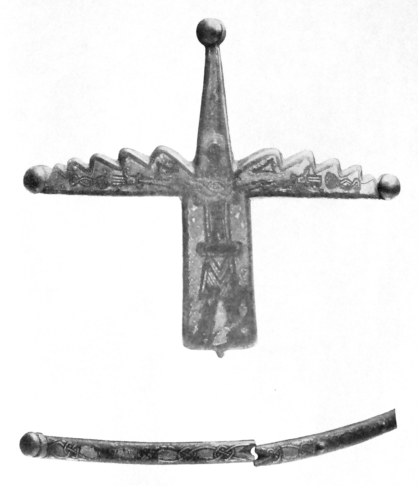 Decoration from the helmet of St. Wenceslas.